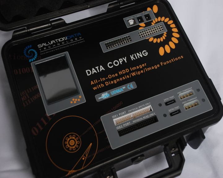 Latest fastest hard drive image tool integrating hard drive wipe and auto detetion solutions with friendly features for forensic computer professionals